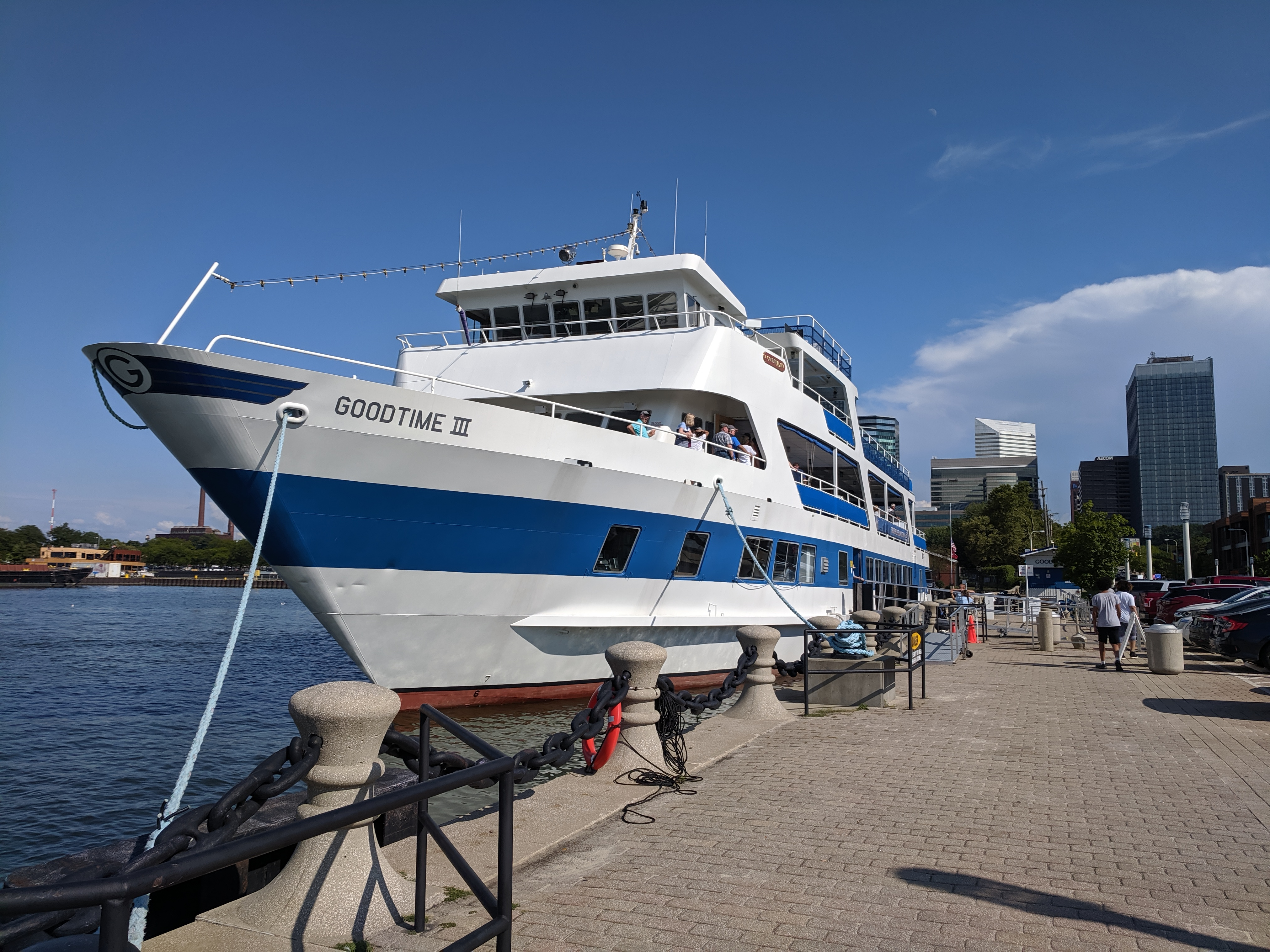 Image of the boat, Goodtime III docked outside of Cleveland, Ohio.